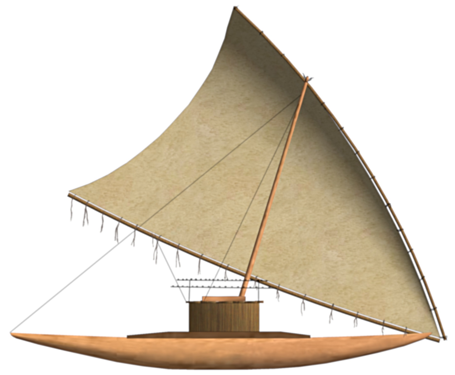 The Kalia is a Polynesian designed sailing vessel used in Tonga and is type of Drua. This drawing was modelled using Google SketchUp for the basic Kalia and decorated with Gimp.